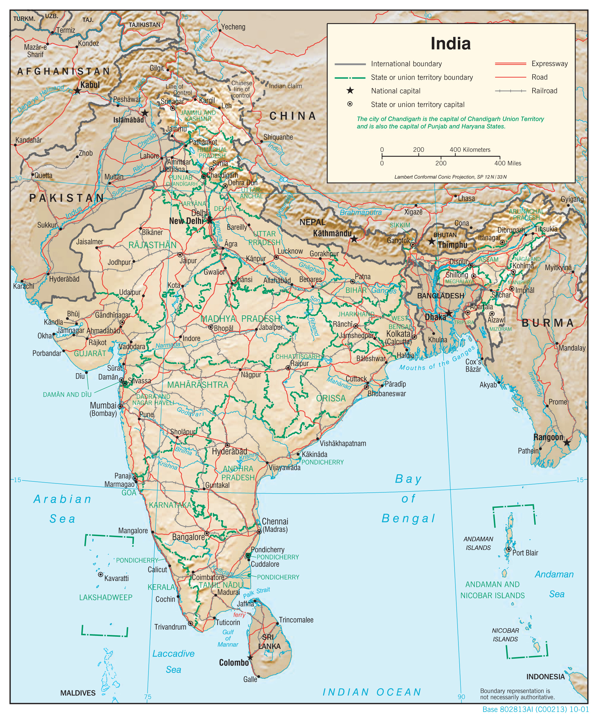 Topographic map of India (shaded relief), 2001.